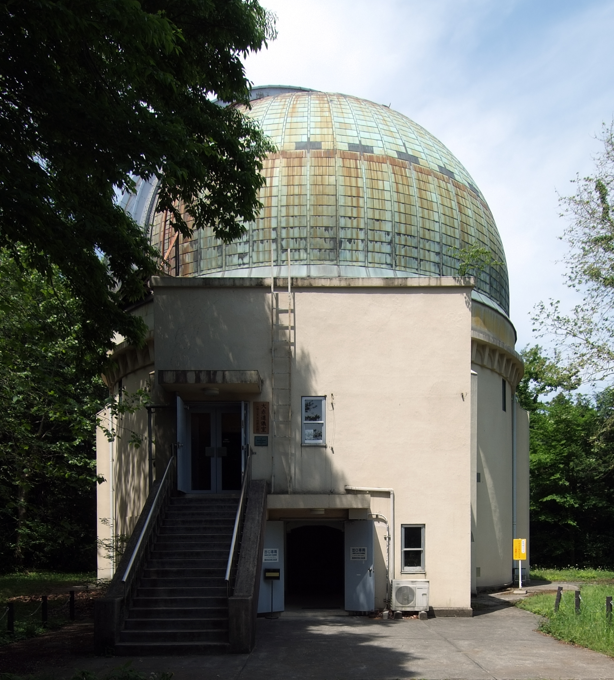 Observatory History Museum in Mitaka Campus, National Astronomical Observatory of Japan, Mitaka, Tokyo, Japan. The dome, built in 1926.